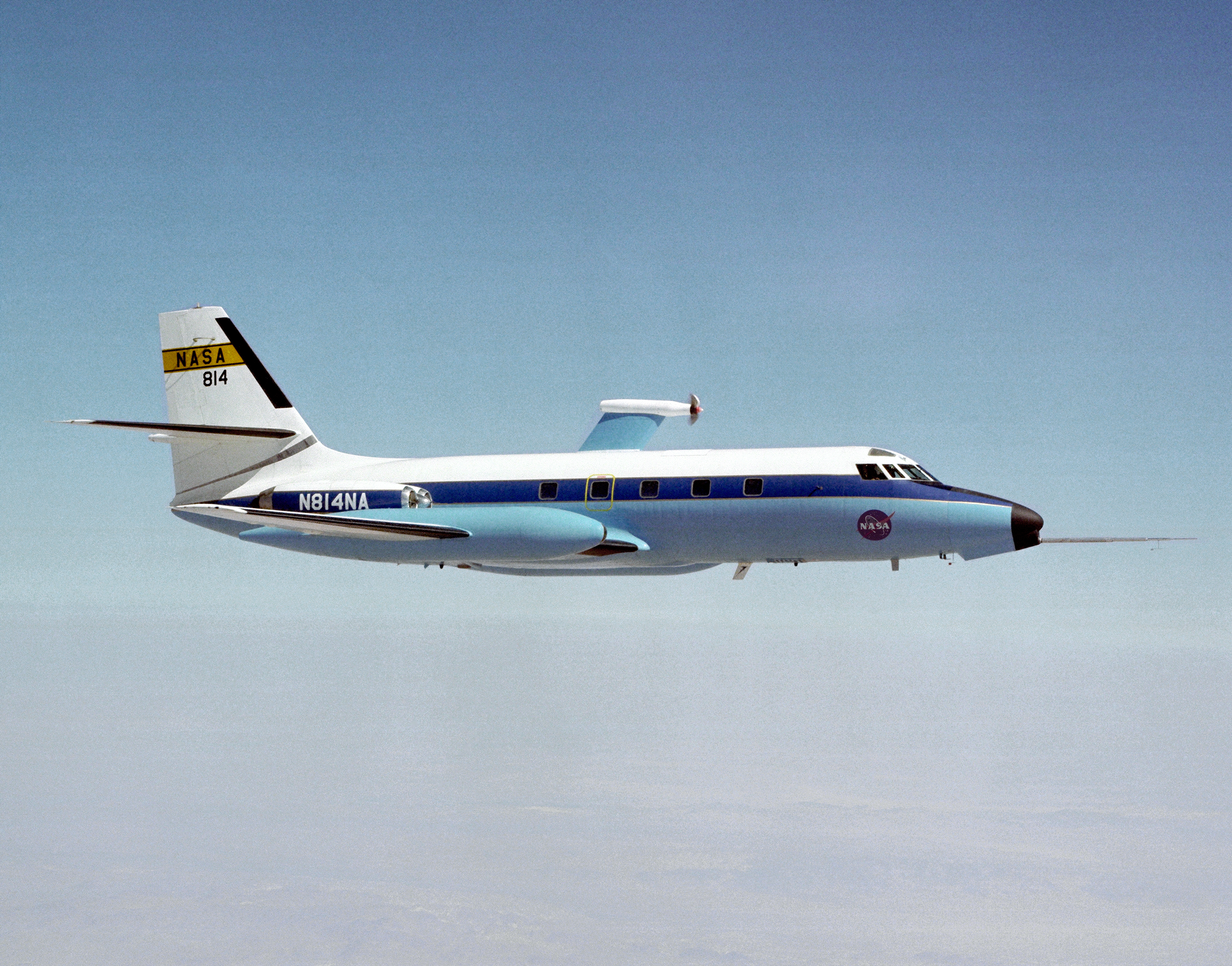 The Dryden C-140 JetStar during testing of advanced propfan designs. Dryden conducted flight research in 1981-1982 on several designs. The technology was developed under the direction of the Lewis Research Center (today the Glenn Research Center, Cleveland, OH) under the Advanced Turboprop Program. Under that program, Langley Research Center in Virginia oversaw work on accoustics and noise reduction. These efforts were intended to develop a high-speed and fuel-efficient turboprop system.